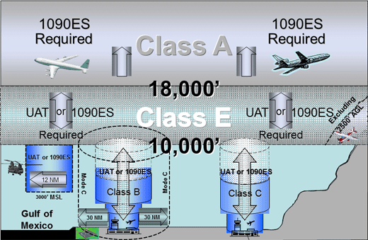 Picture from FAA website